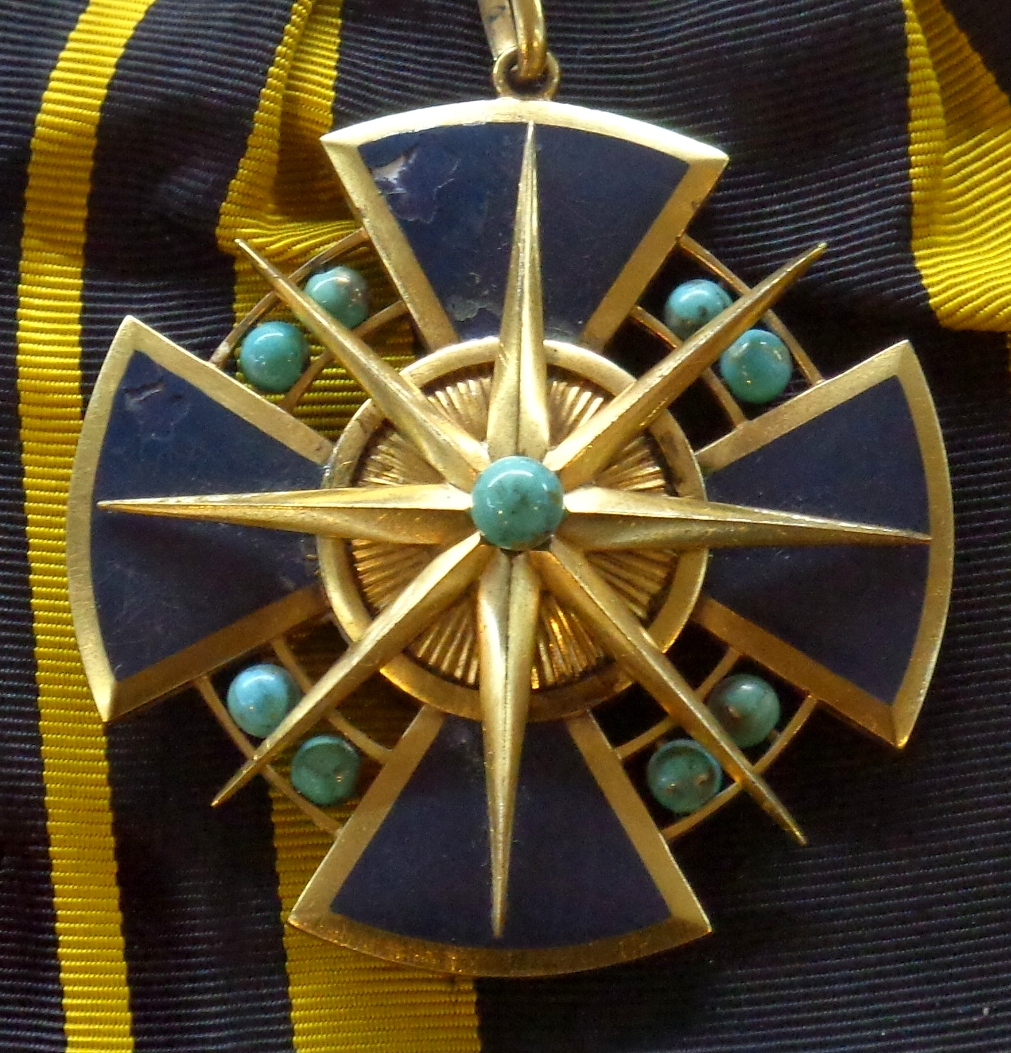 Order of the Star of Brabant, badge of Grand Cross, c.1914. Grand Duchy of Hesse. The exhibition of the Tallinn Museum of Orders of Knighthood, Estonia.